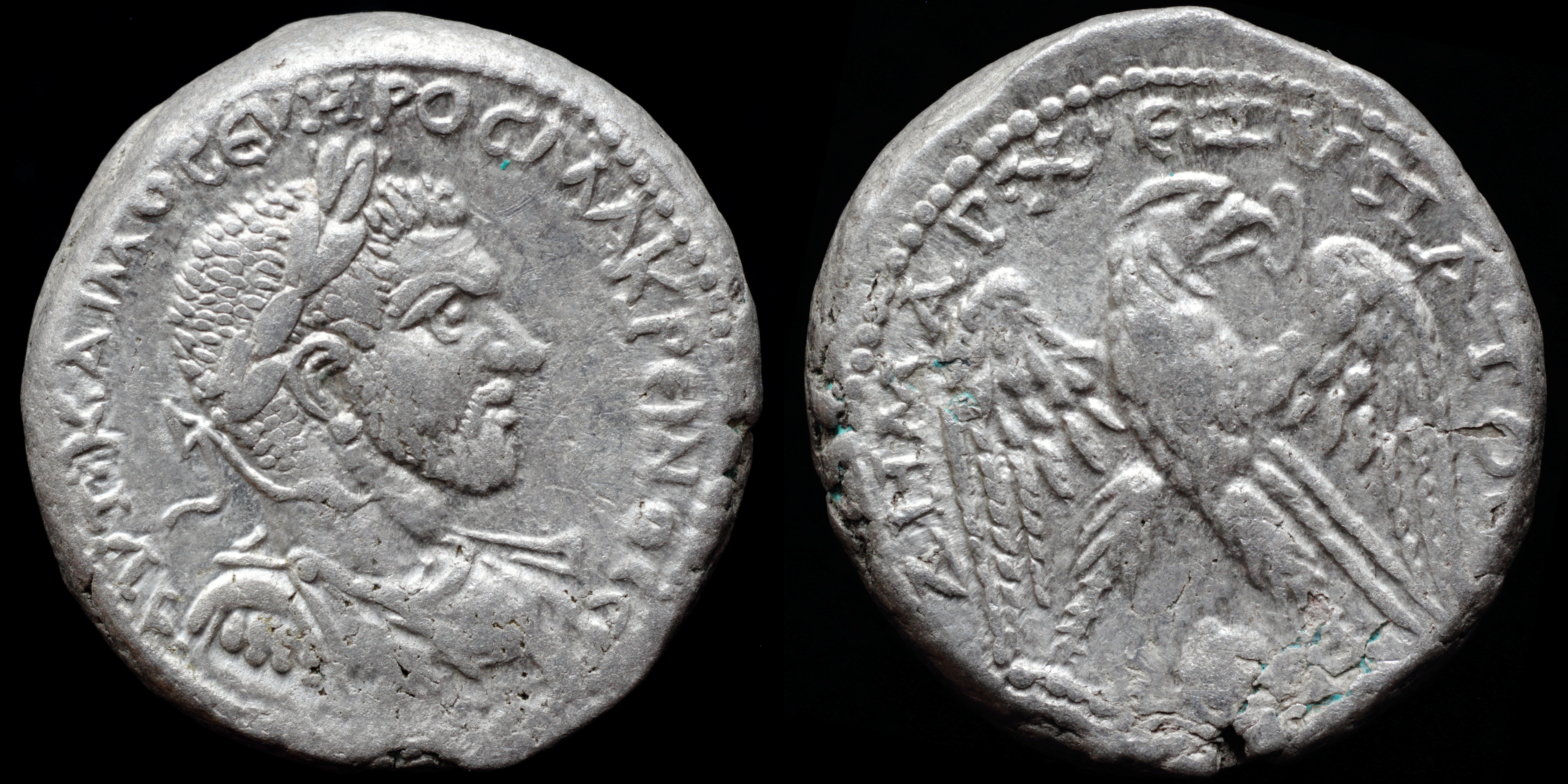 AR tetradrachm struck by Macrinus in Edessa 217-218 AD obverse: laureate, draped and cuirassed bust right AVT·KAI M O CEVHPOC MAKPEINOC C reverse: facing eagle, head right, wreath in beak, shrine below ΔHMAP·X·EΞ VΠATOC ref.: Prieur 860 (2 examples) (same obverse die)